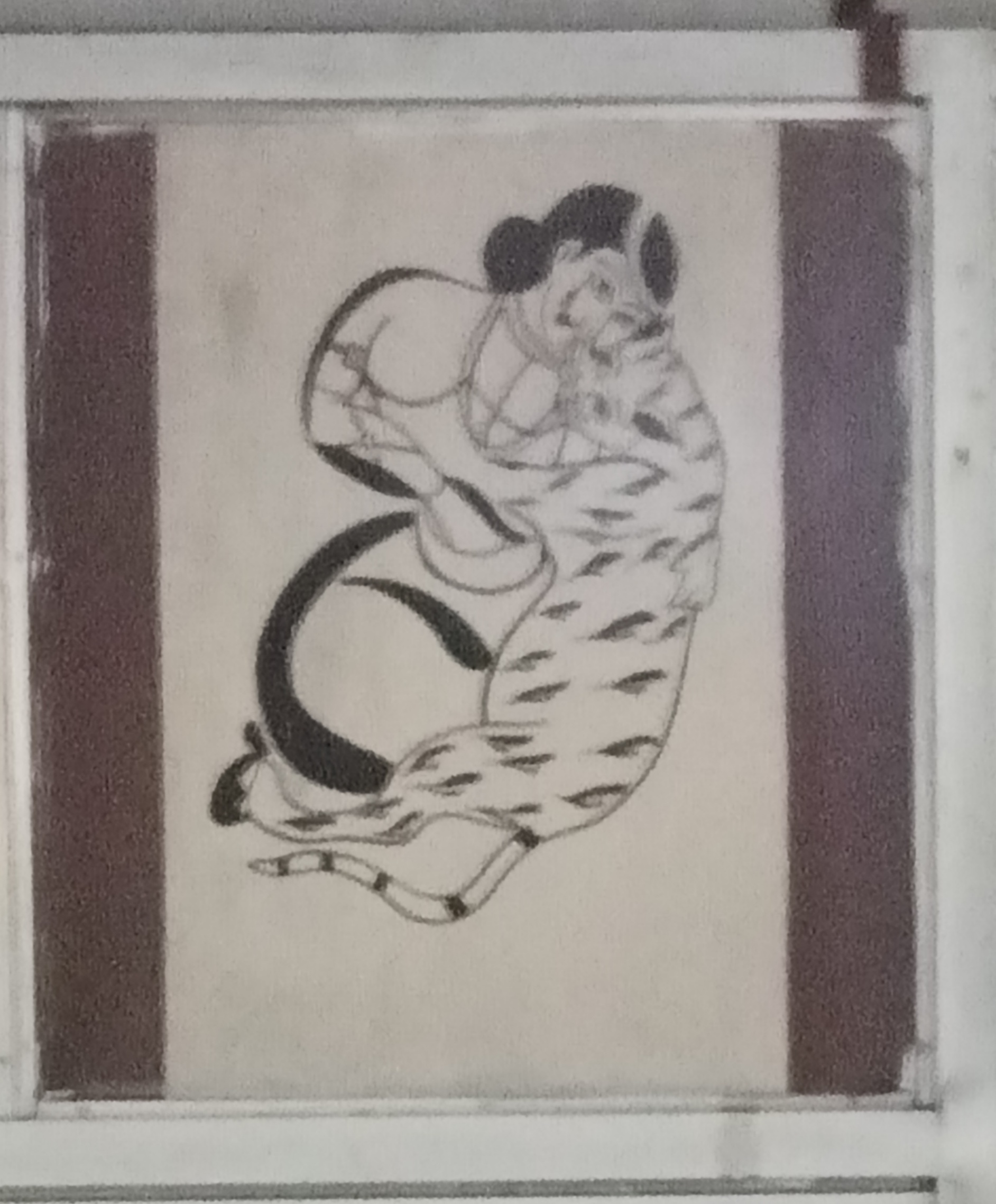 This a Kalighat painting (of the famed Kalighat School of Art) on Soham Swami's wrestling bout. The painting is at Kalighat Metro Railway station, Kolkata.